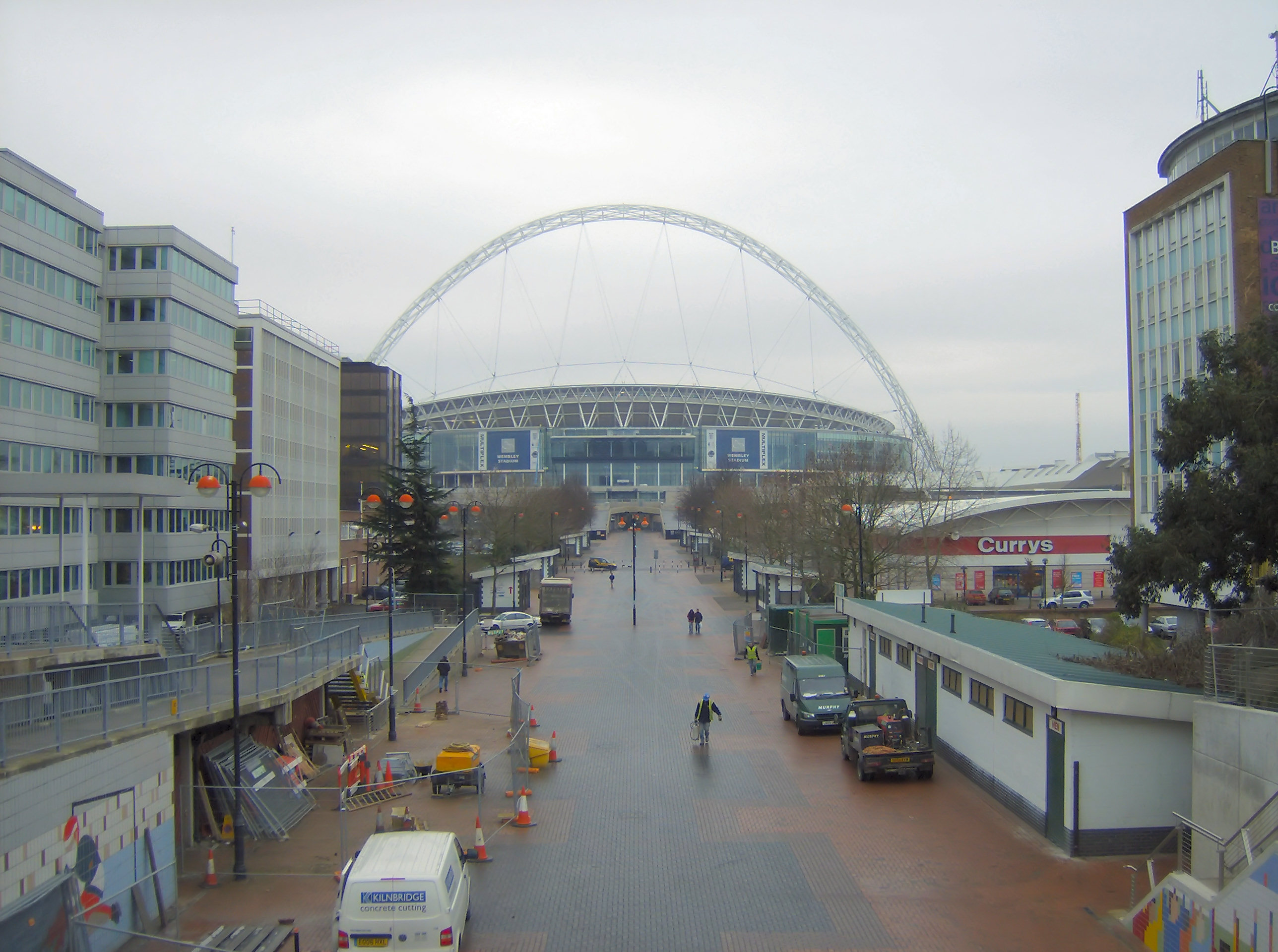 A view of the second Wembley Stadium, due to open in 2007, looking down Wembley Way. It is built on the site of the previous stadium, used from 1923 to 2000. The current stadium began being constructed in 2003.